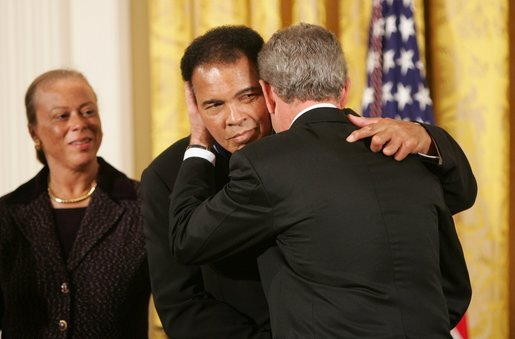 As Mrs. Lonnie Ali looks on, President George W. Bush embraces three-time heavyweight boxing champion of the world Muhammad Ali after presenting him with the Presidential Medal of Freedom Wednesday, Nov. 9, 2005, during ceremonies at the White House.